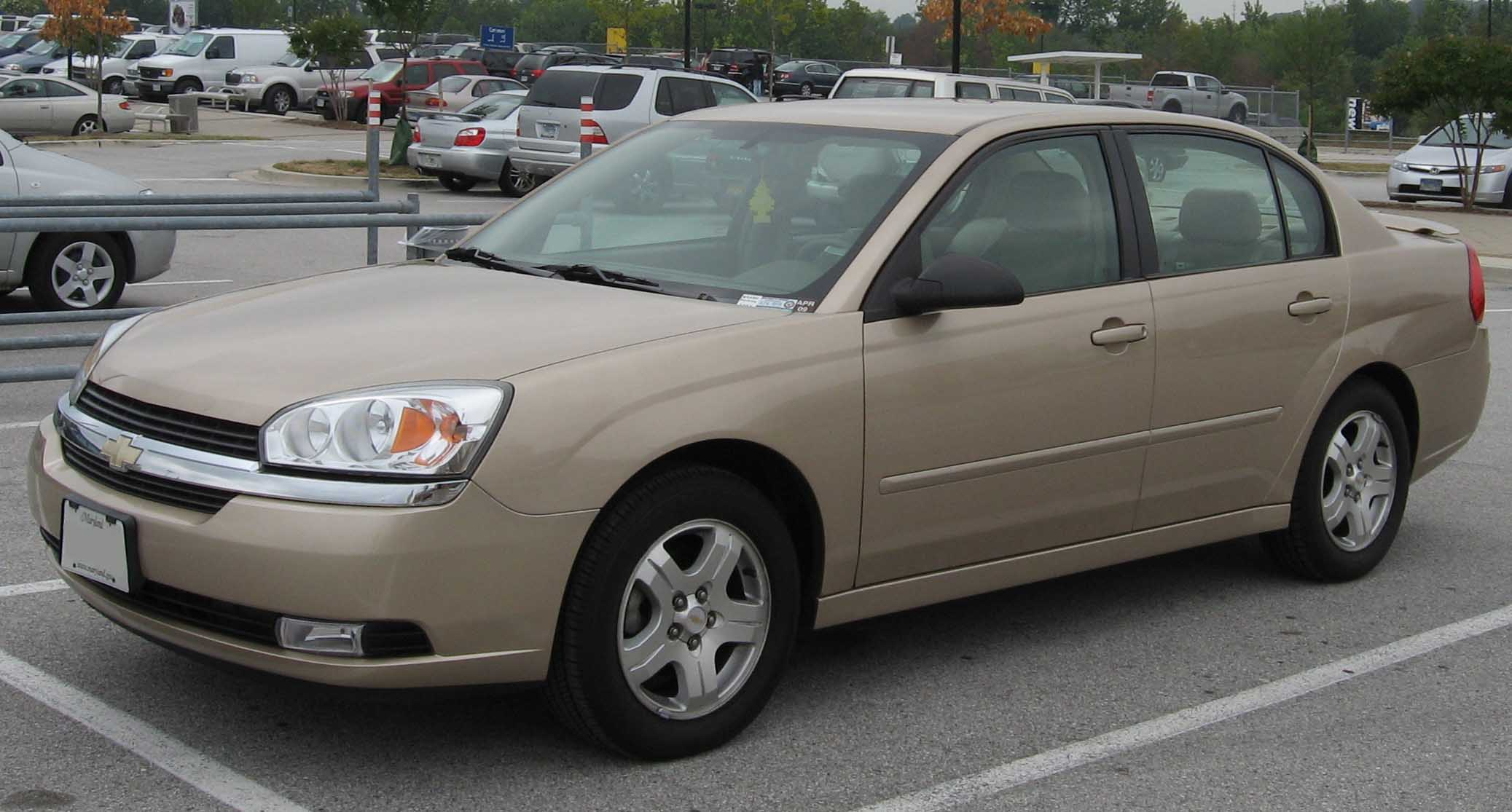 2004-2005 Chevrolet Malibu photographed in College Park, Maryland, USA.